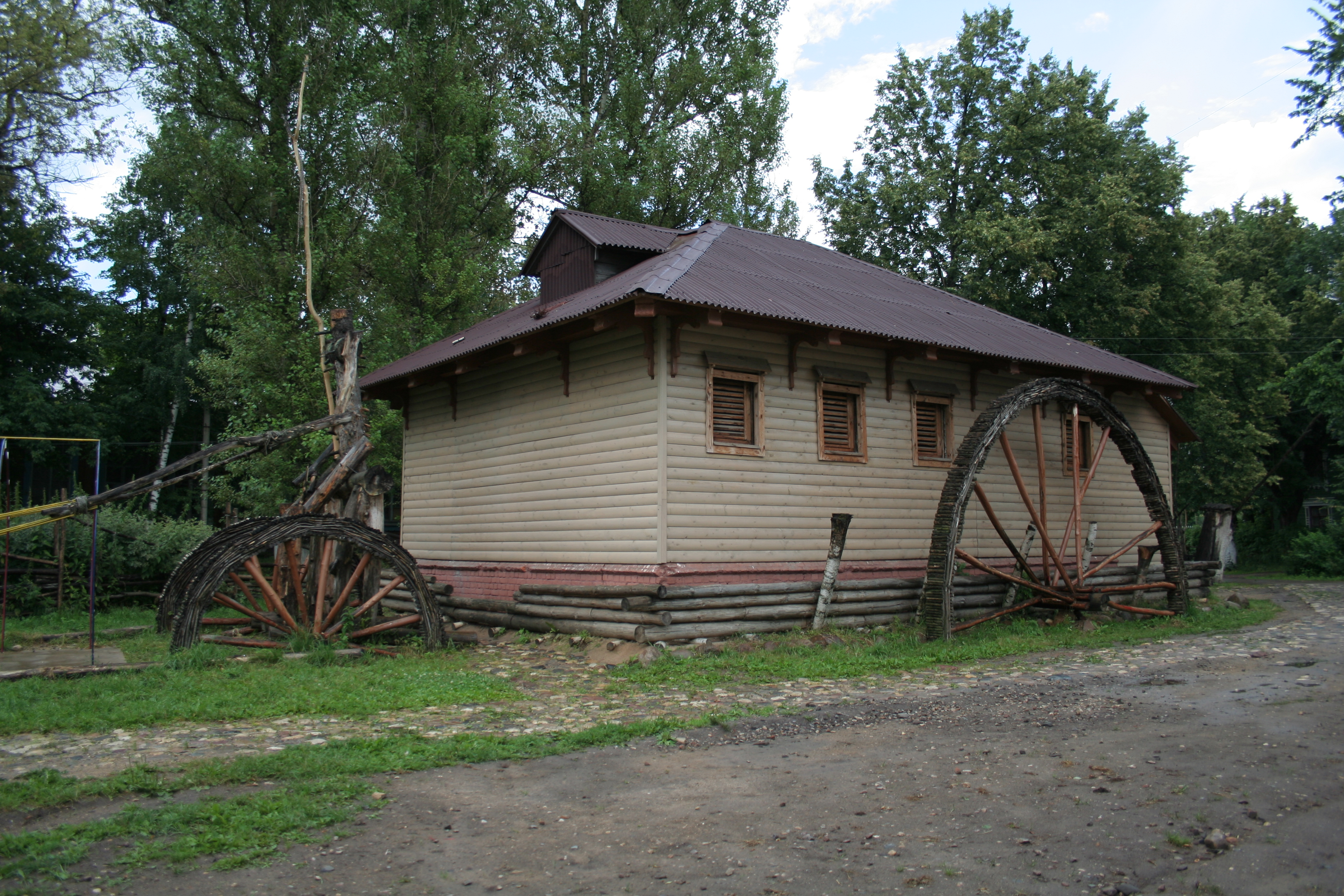 Museum of the Coachman in Gavrilov-Yam, Yaroslavl Oblast, Russia